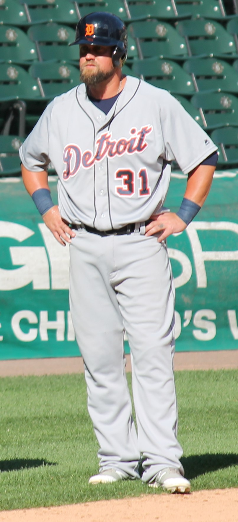 Casey McGehee during the Detroit Tigers versus Chicago White Sox afternoon game, September 7, 2016 at US Cellular Field. McGehee was the Tigers' starting third baseman for the game and batted 1 for 3.